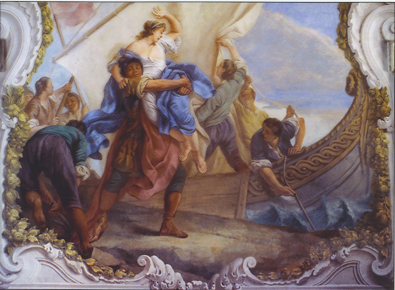 Fresco in the Villa Widmann–Foscari in Mira, Veneto, Italy.